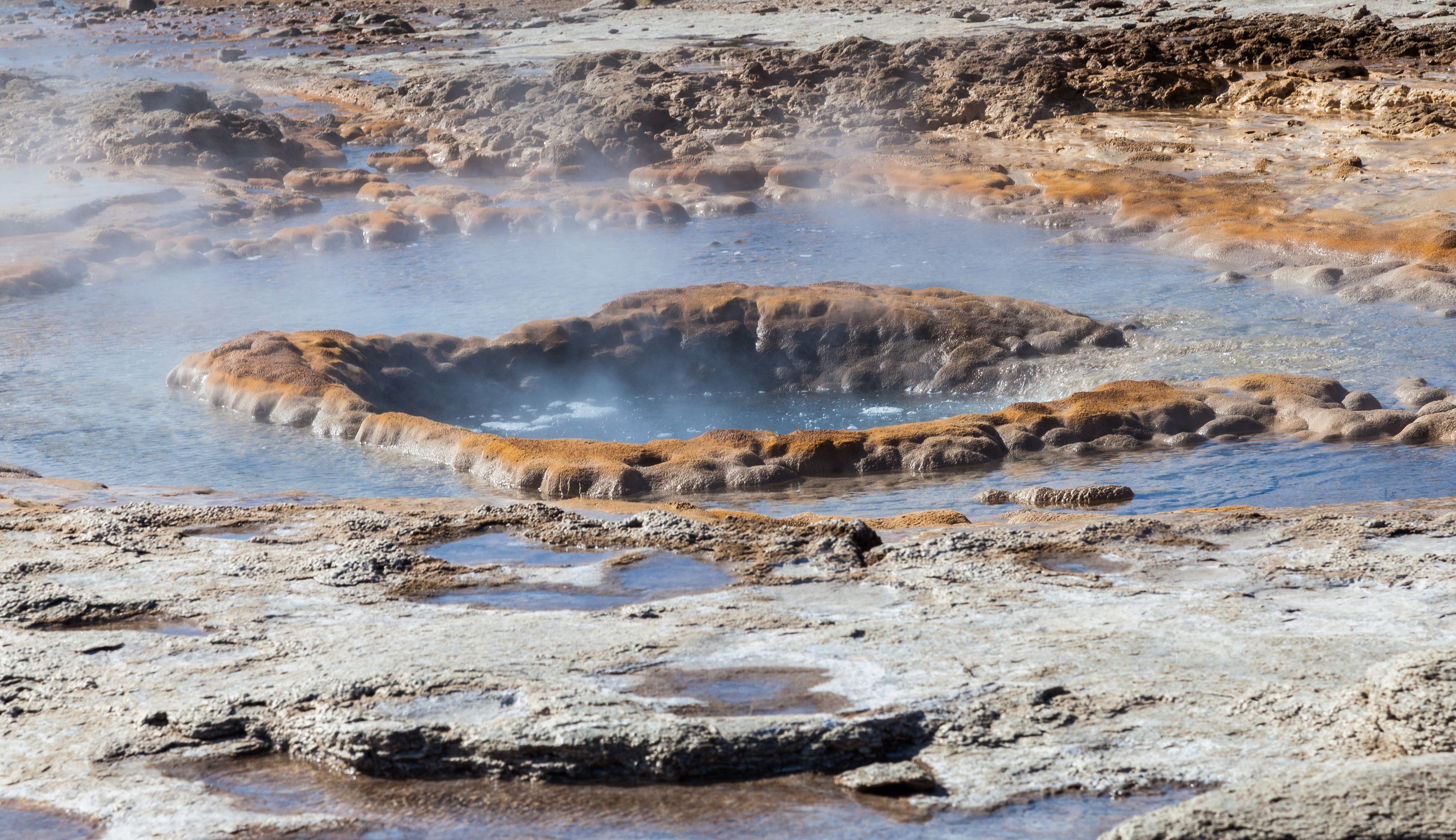 Strokkur, Geysir Geothermal Field, Suðurland, Iceland